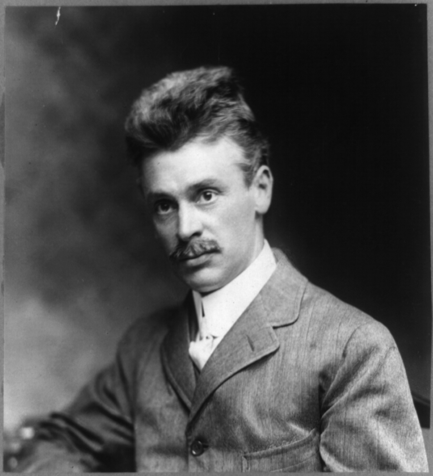 Hiram Percy Maxim, inventor, head-and-shoulders portrait, facing left